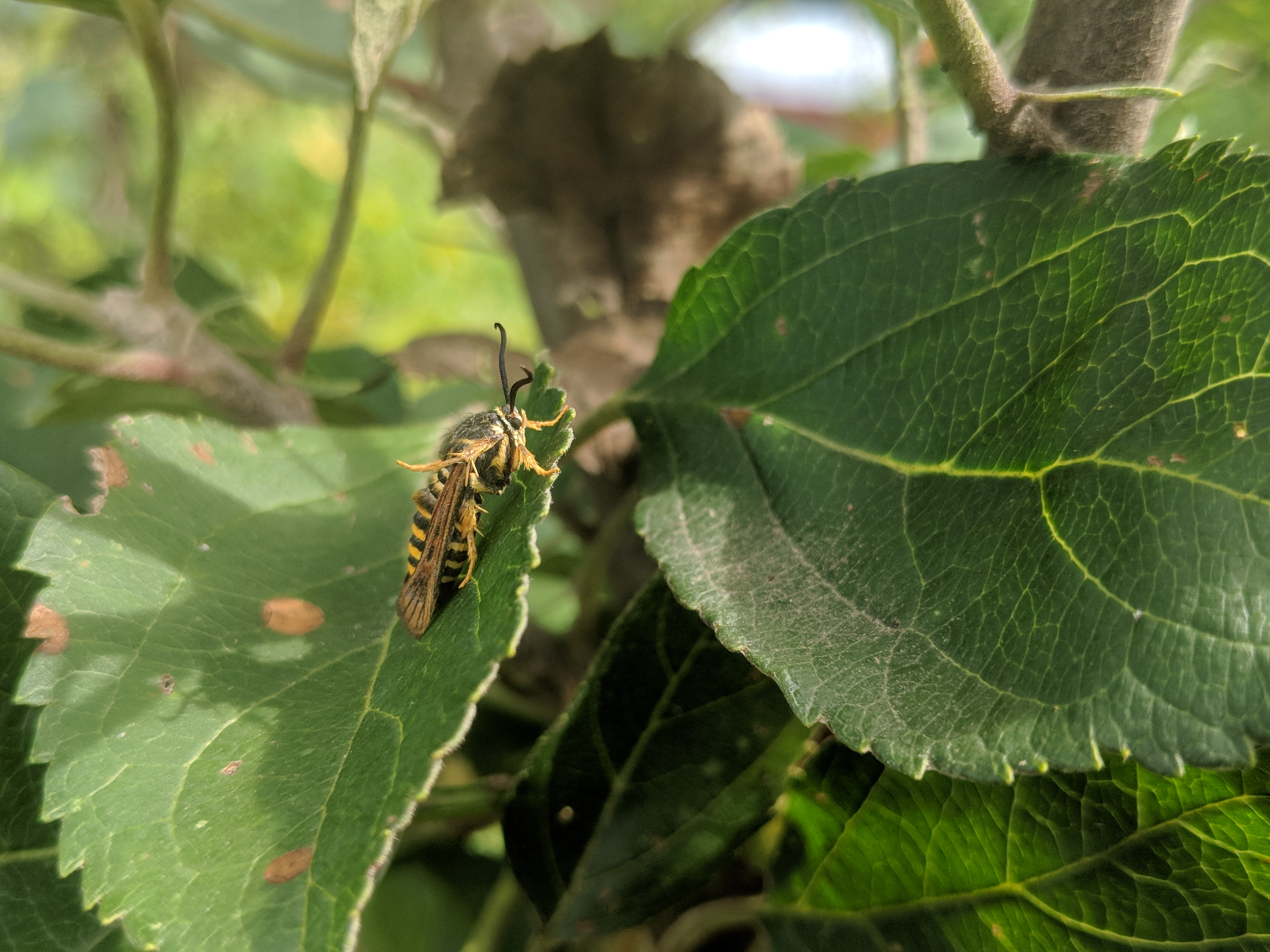 This is an adult pennisetia marginata on an apple tree. Image was taken in Iowa, United States, on 9/4/18. The common name of this moth is the raspberry crown borer or blackberry clearwing borer.